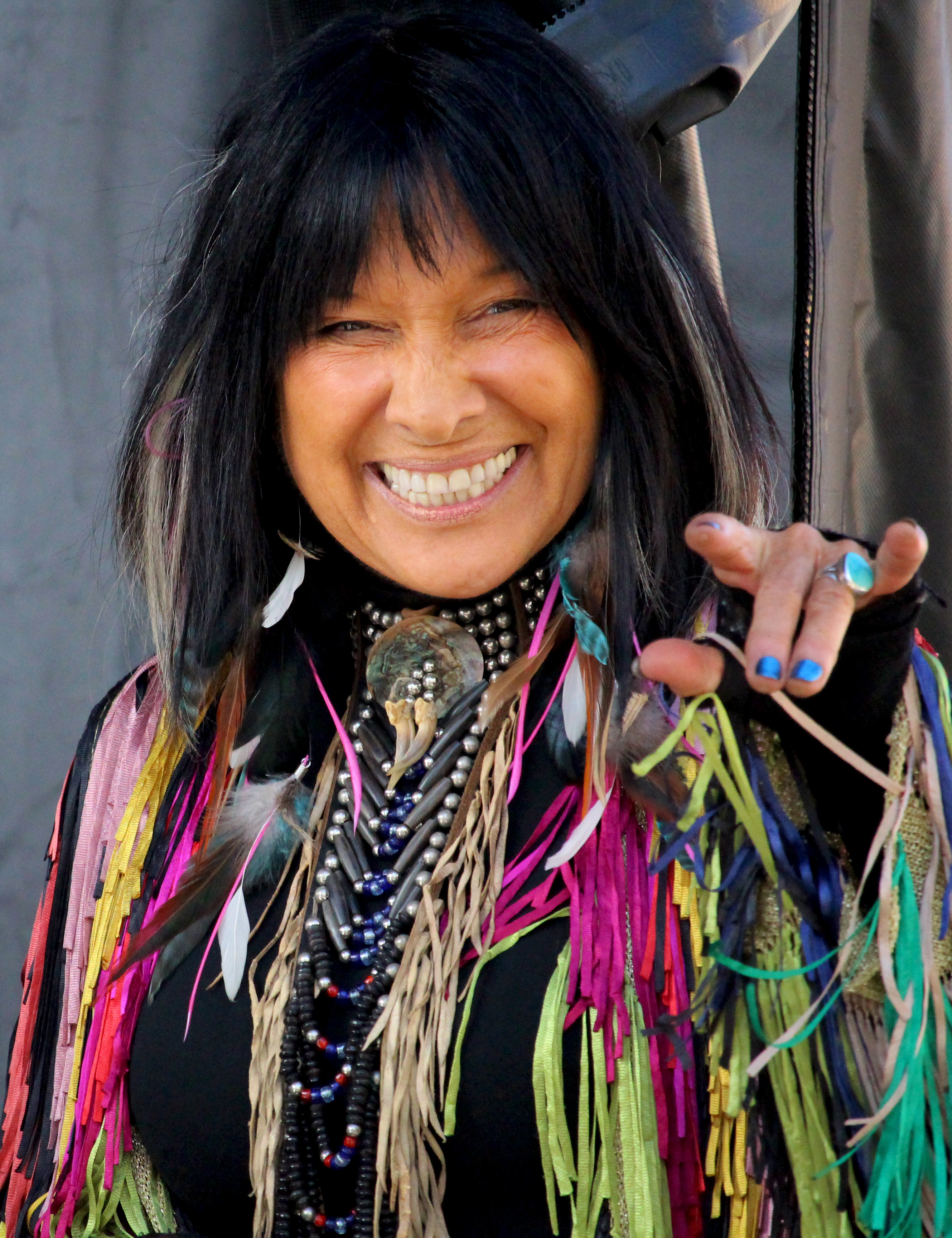 Buffy Ste. Marie at Truth and Reconciliation Commission Concert, Ottawa, Canada